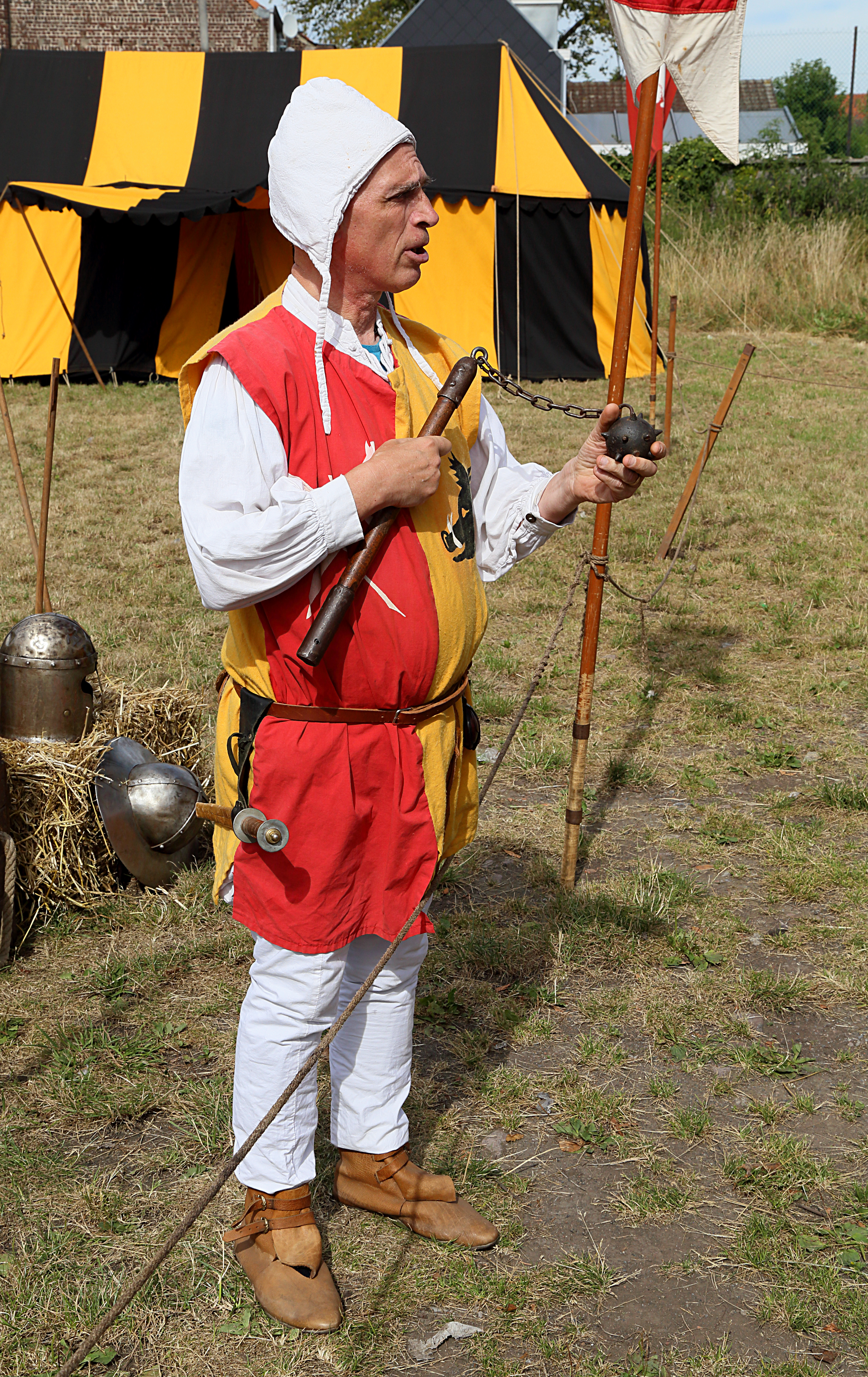 Explanations about the flail by a member of the « Ghilde des Sangliers du Ferrain », picture taken in Wattrelos, France.